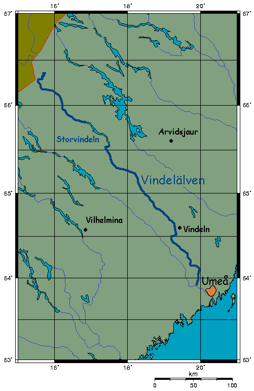 Map of the river Vindelälven, Sweden (in the upper left corner is Norway) map made by User:Nordelch with help of